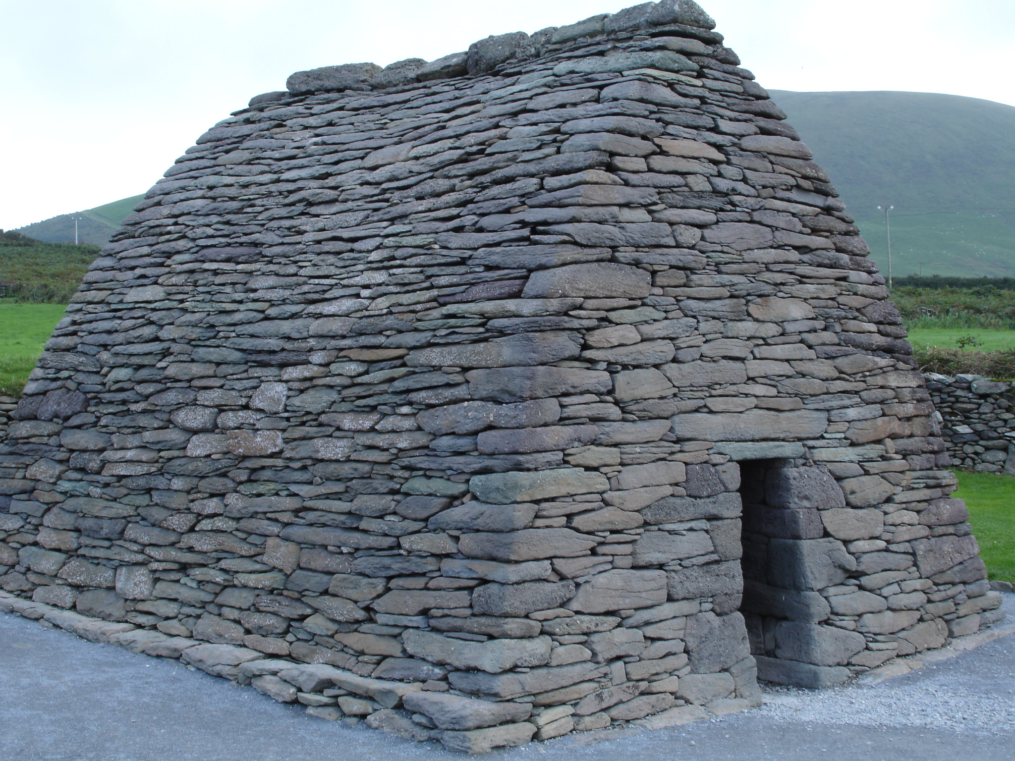 View of Gallarus Oratory, Dingle Peninsula, Co. Kerry, Ireland